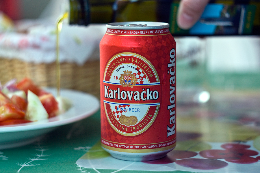 Karlovačko beer can.